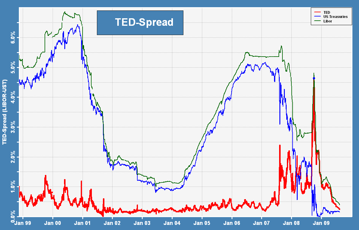 TED spread as an indicator for credit risk in the subprime crisis